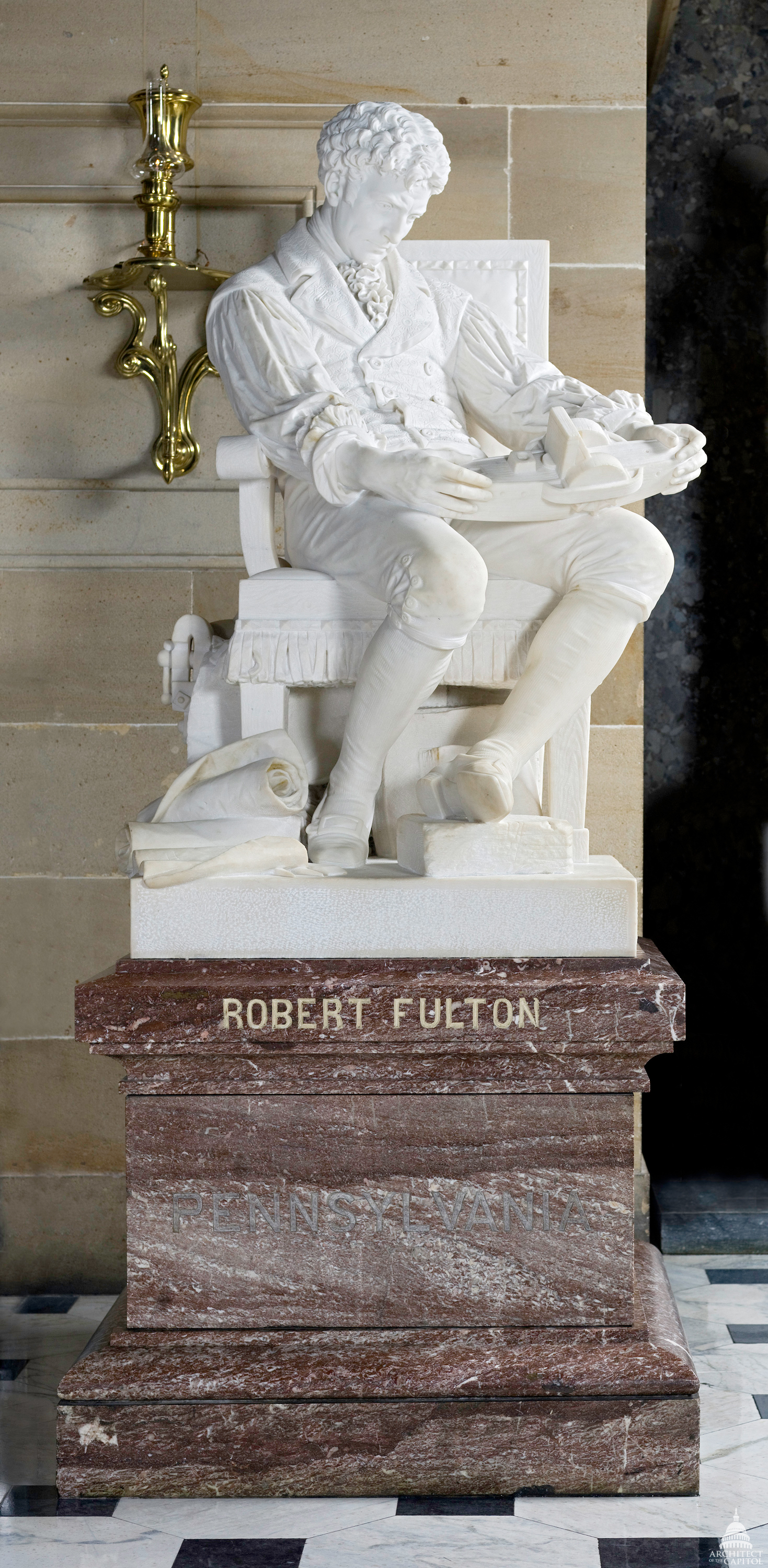 Robert Fulton (marble, 1878-83), by Howard Roberts, National Statuary Hall Collection, U.S. Capitol, Washington, D.C., representing Pennsylvania, given in 1889. This official Architect of the Capitol photograph is being made available for educational, scholarly, news or personal purposes (not advertising or any other commercial use). When any of these images is used the photographic credit line should read “Architect of the Capitol.” These images may not be used in any way that would imply endorsement by the Architect of the Capitol or the United States Congress of a product, service or point of view. For more information visit